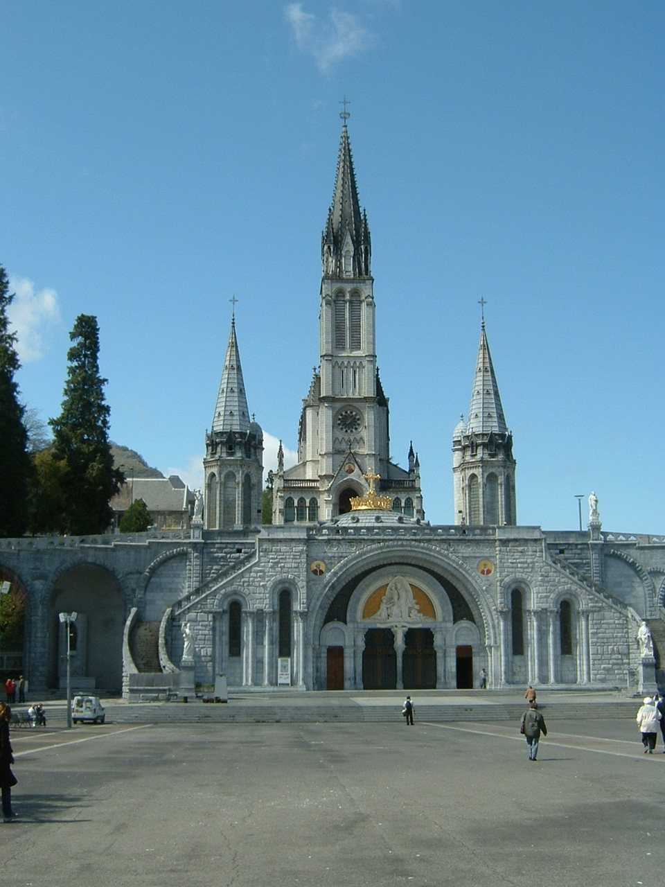 Lourdes : Immaculate Conception Basilica (1866-1871)